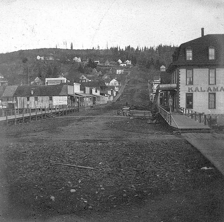 Text from Kiehl log: Kalama, Wash., Nov. 8, 1900 Album 2.305 Subjects (LCTGM): Dirt roads--Washington (State)--Kalama; Dwellings--Washington (State)--Kalama; Stores & shops--Washington (State)--Kalama; Wooden sidewalks--Washington (State)--Kalama Subjects (LCSH): Kalama (Wash.)